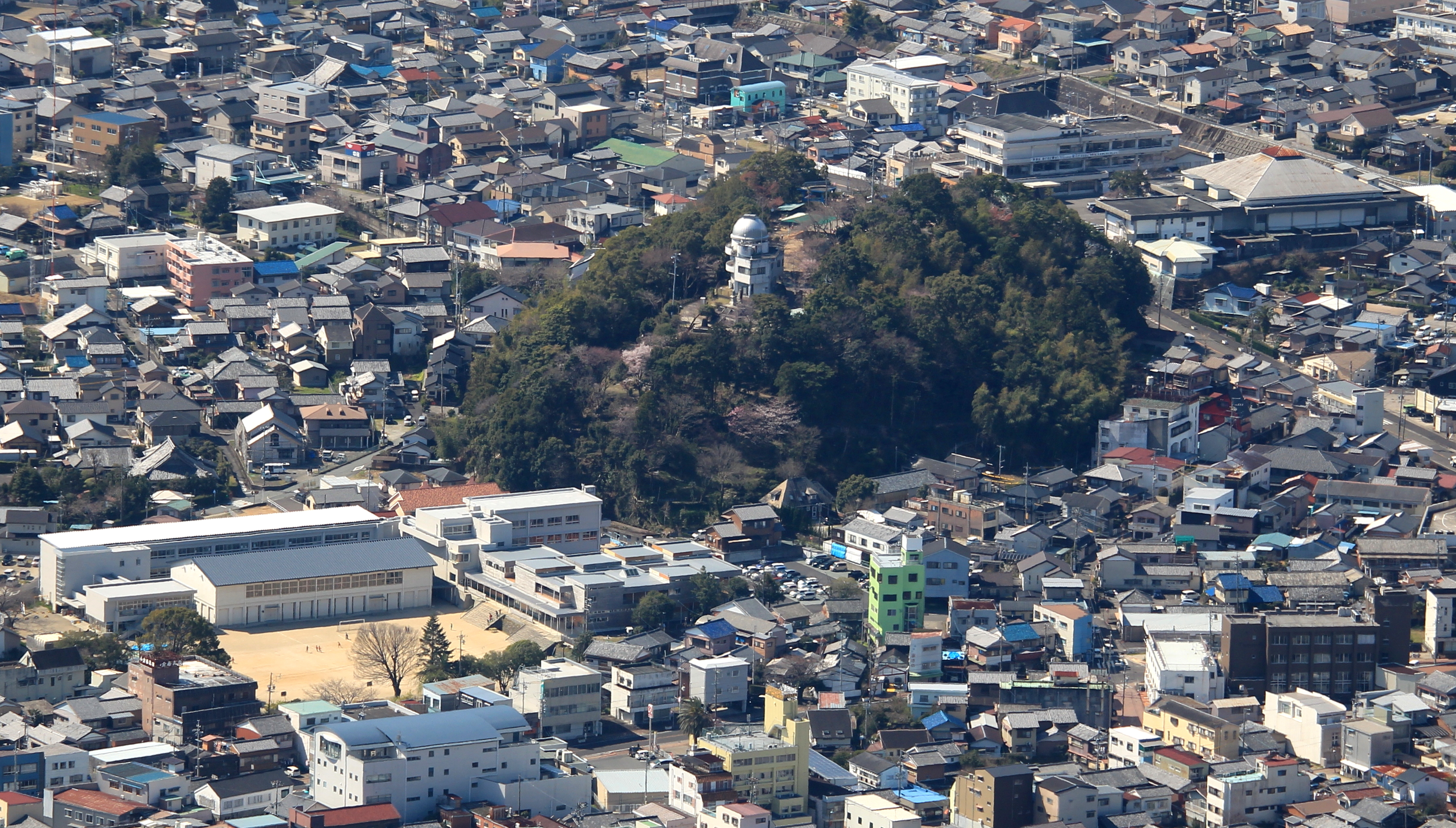 Nakamurayama Castle (Mount Nakamura Park) and Owase elementary school seen from Mount Tengura, in Owase, Mie prefecture, Japan.